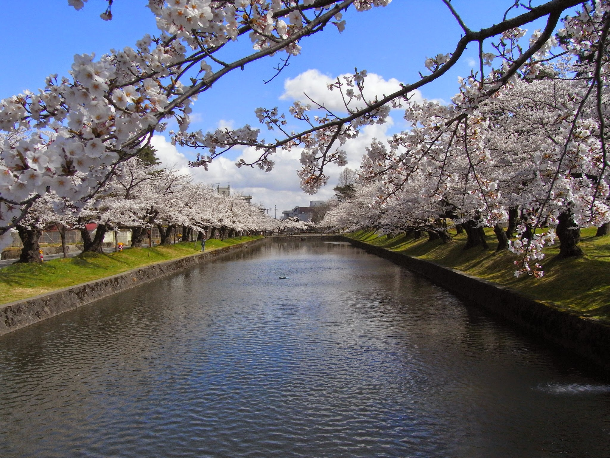 Cherry blossoms in Tsuruoka Park